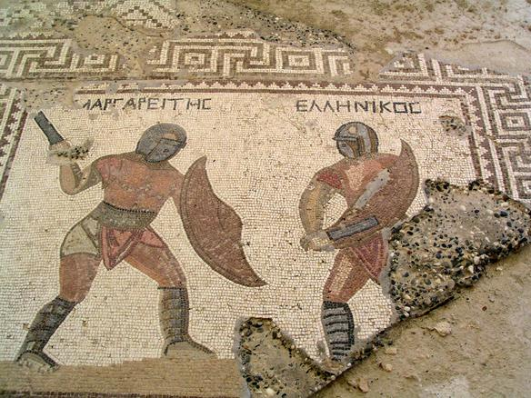 Mosaic depicting a gladiator fight between Margareites and Ellenikos, Kourion - The House of the Gladiators, Cyprus